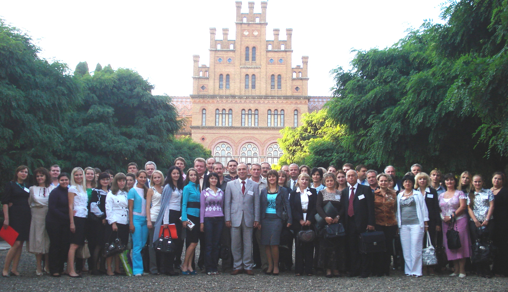 Participants of the Fifth scientific conference of "Problem of hydrology, hydrochemistry, hydroecology", Chernivtsi, Ukraine, in 2011